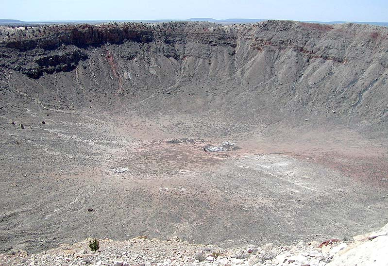 Photo of Barringer Crater interior from the edge